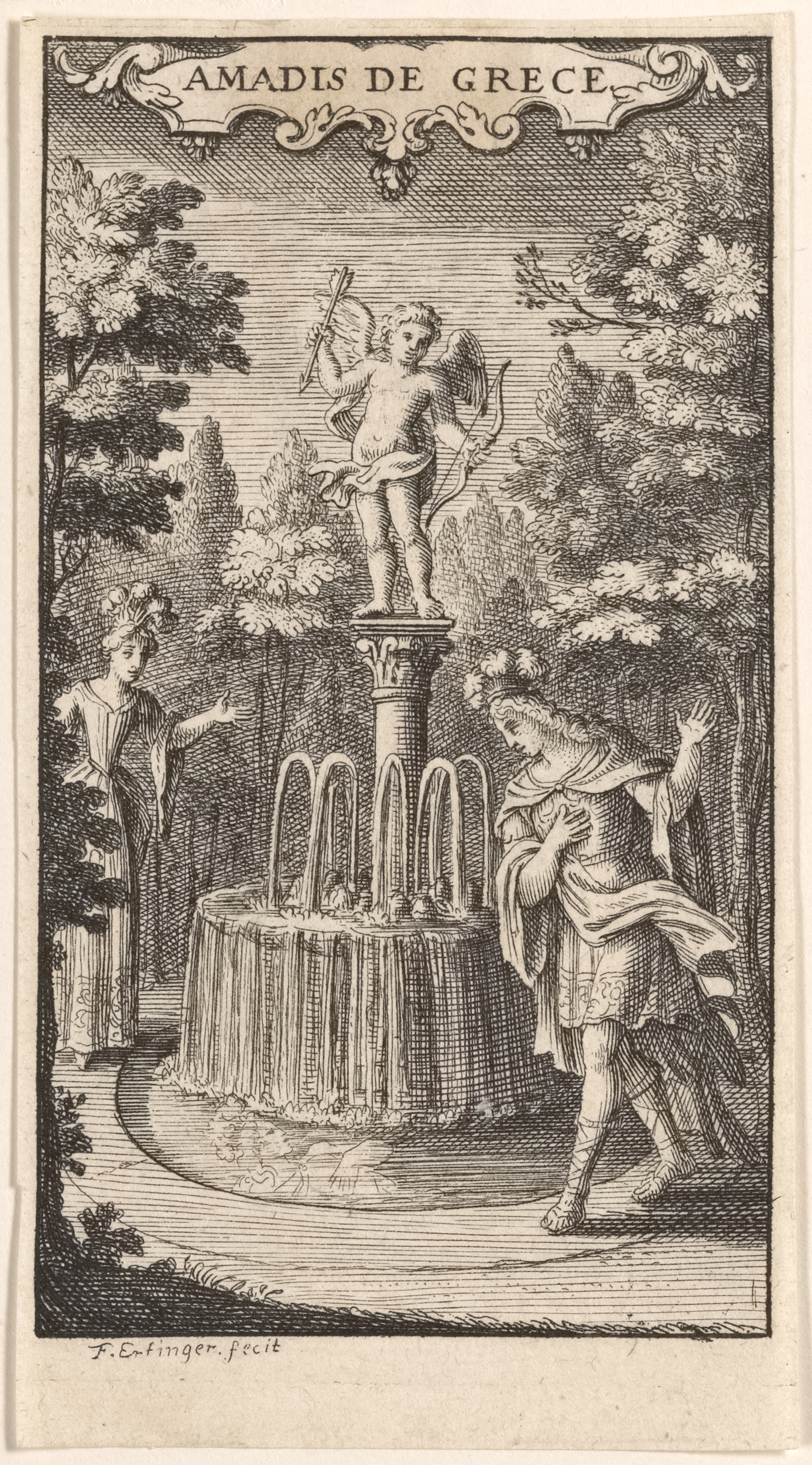 A scene from Act III of André Destouches's opera Amadis de Grèce, premiered at the Paris Opéra, April, 1699. Amadis gazes at his reflection in the fountain of the truth of love; Melisse stands at left.